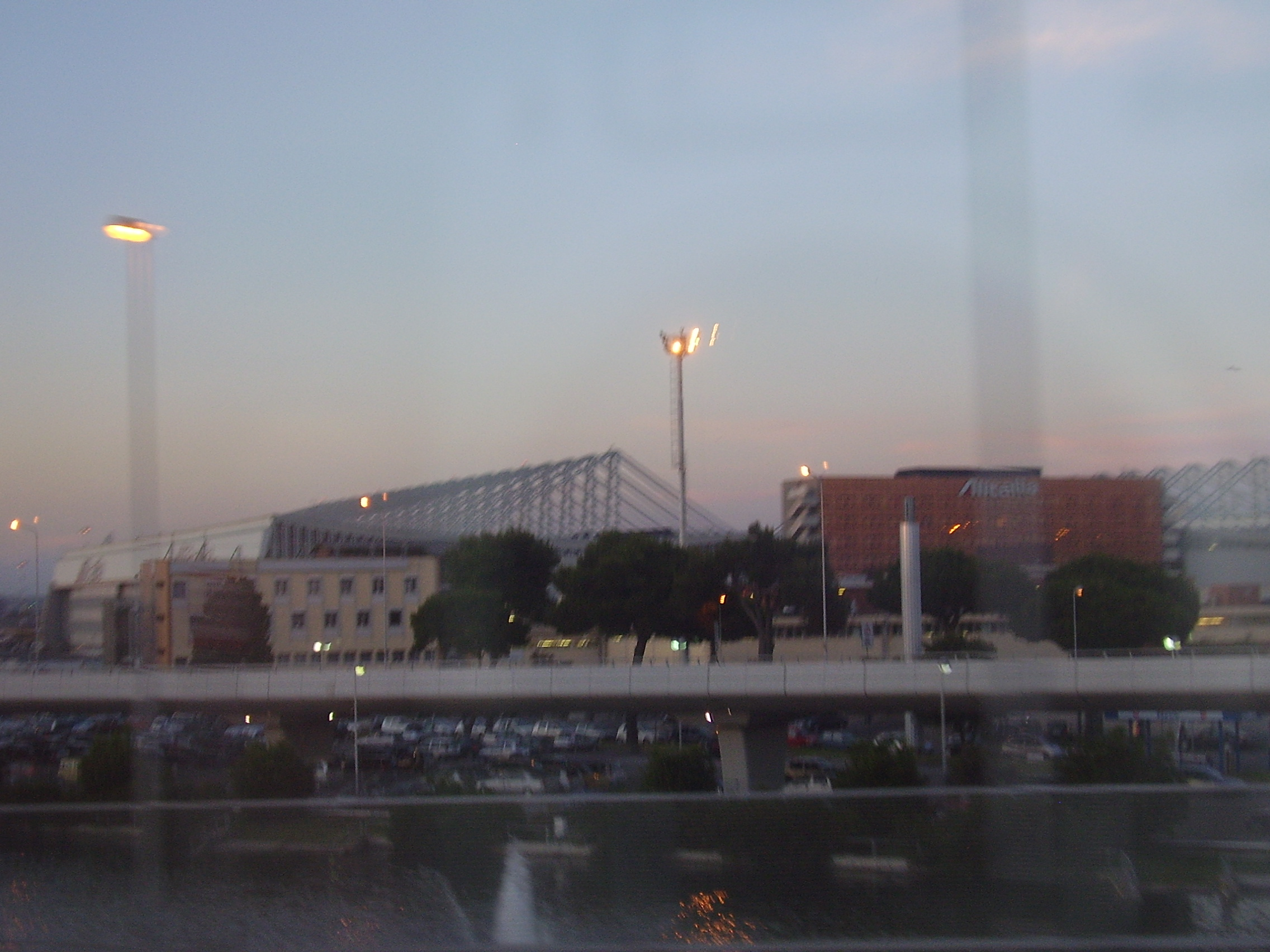 Alitalia headquarters